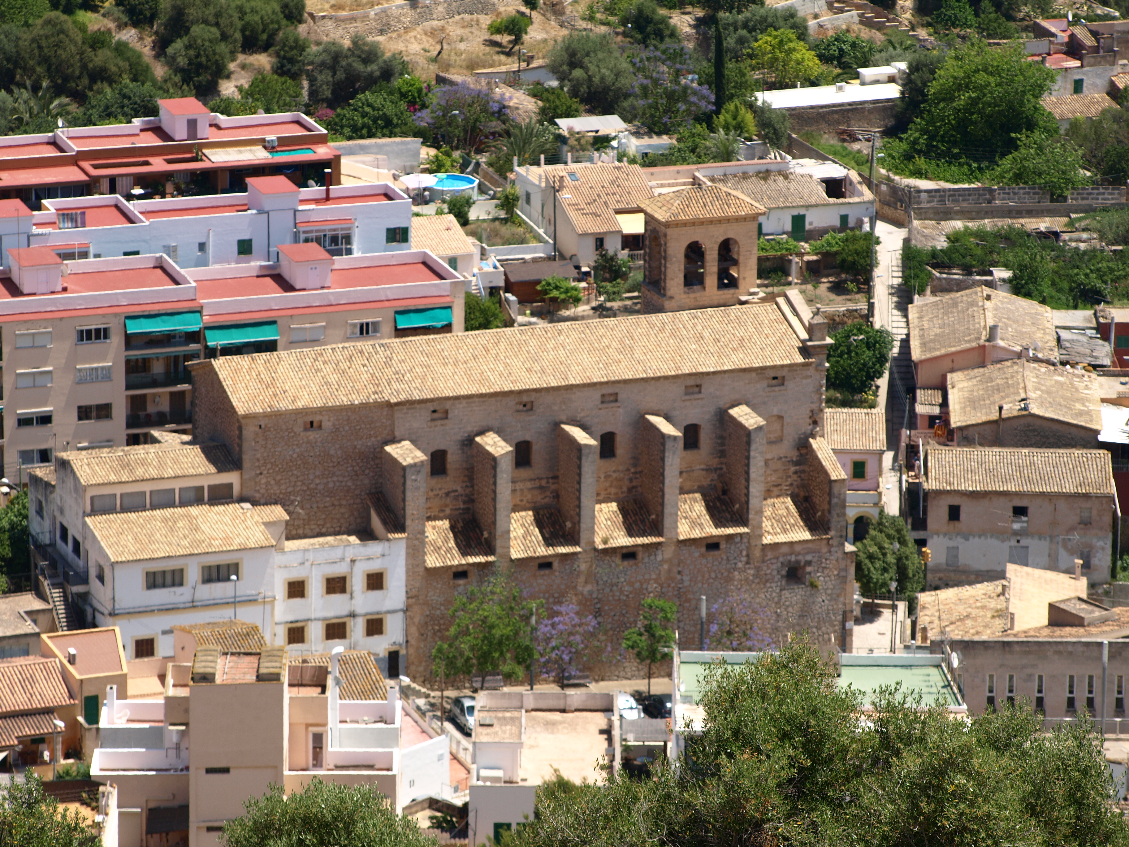 Genova Church, Palma